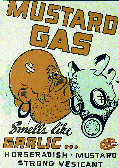 World War II Gas Identification Posters, ca. 1941-1945